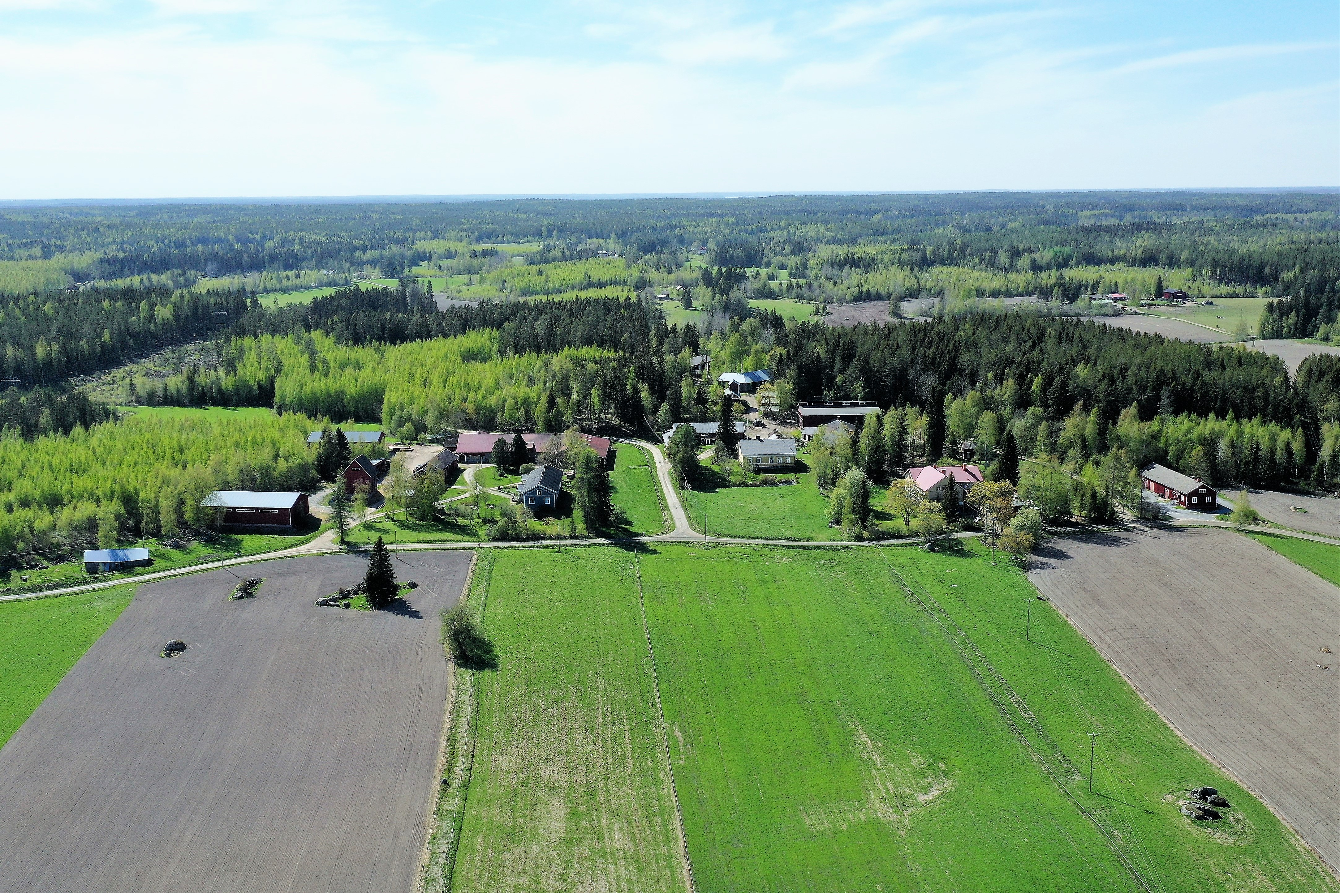 Leppälammi village in Sastamala, Finland